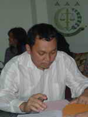 Tuesday 31/8/2010 Gayus Tambunan Case File submitted to the Court. Delegation to the Court is related to 2 criminal acts committed by Gaius Tambunan, namely in a Tax case involving two Gayus superiors at the Directorate General of Taxes (Maruli Pandapotan Manurung and Humala Sl Napitupulu), which is conducting research on objection material and has the authority to reduce, delete, add sanctions related to the taxpayer's objection request, and the second case file related to Corruption in the form of giving something to civil servants or state administrators (Police Headquarters Investigator) related to something that is contrary to the obligations in his position.